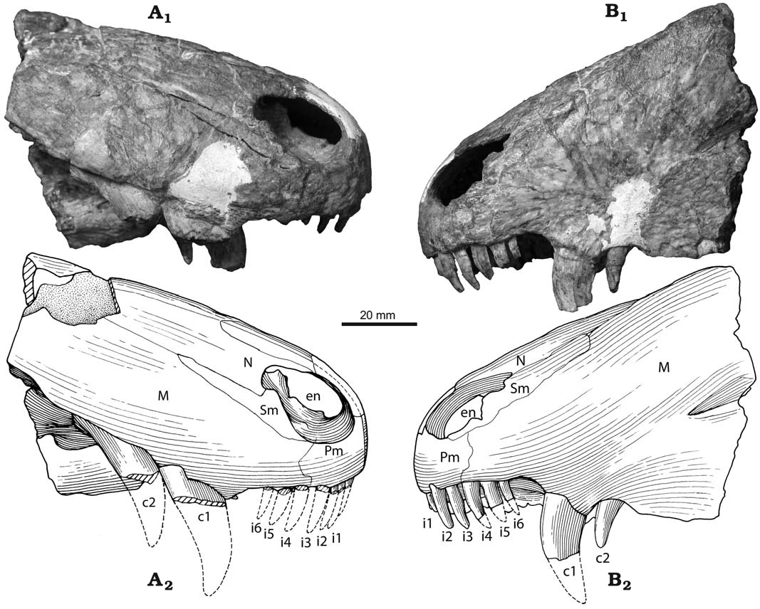 Partial skull of the basal therapsid Raranimus dashankouensis gen. et sp. nov., IVPP V15424 (holotype) from Middle Permian Xidagou Formation, Dashankou, Xumen, Gansu, China in right lateral (A) and left lateral (B) views.. Photographs (A1, B1) and explanatory drawings (A2, B2). Abbreviations: c1–2, canine 1–2; ch, choana; en, external naris; i1–6, incisor 1–6; M, maxilla; N, nasal; p1–3, postcanine 1–3; Pf, prefrontal; Pl, palatine; Pm, premaxilla; Pt, pterygoid; rc, replacement canine; ri, replacement incisor; Sm, septomaxilla; sp, small precanine maxillary tooth; V, vomer.